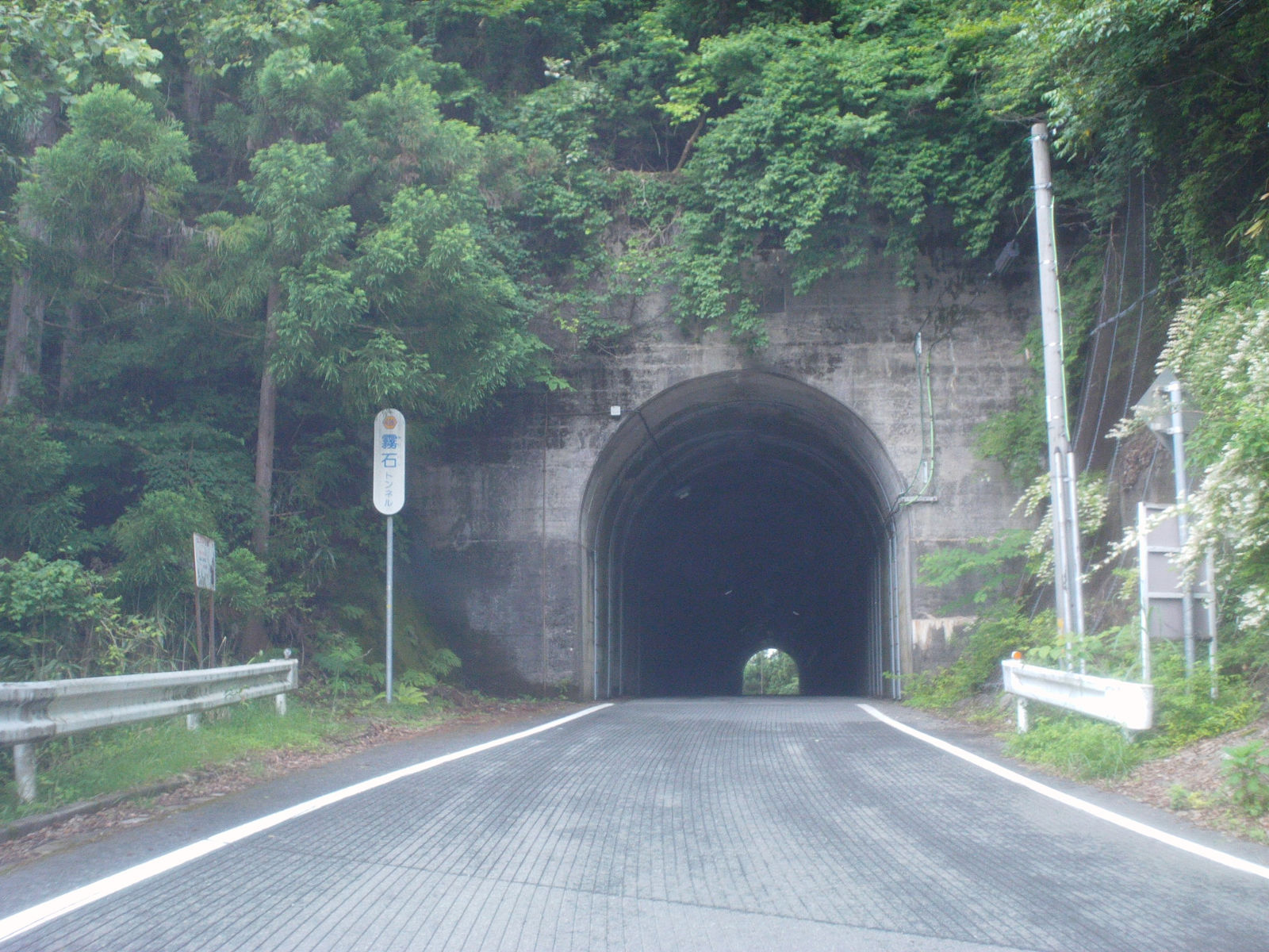 Kiriishi Tunnel on the Aichi Prefectural Road Route 426, in Toyone Village